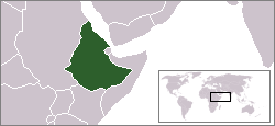 Ethiopia locator map before Eritrea declared independence. Edited version of PD image by Vardion. Image for use in history articles about Ethiopia or Eritrea when Eritrea was still attached to Ethiopia.